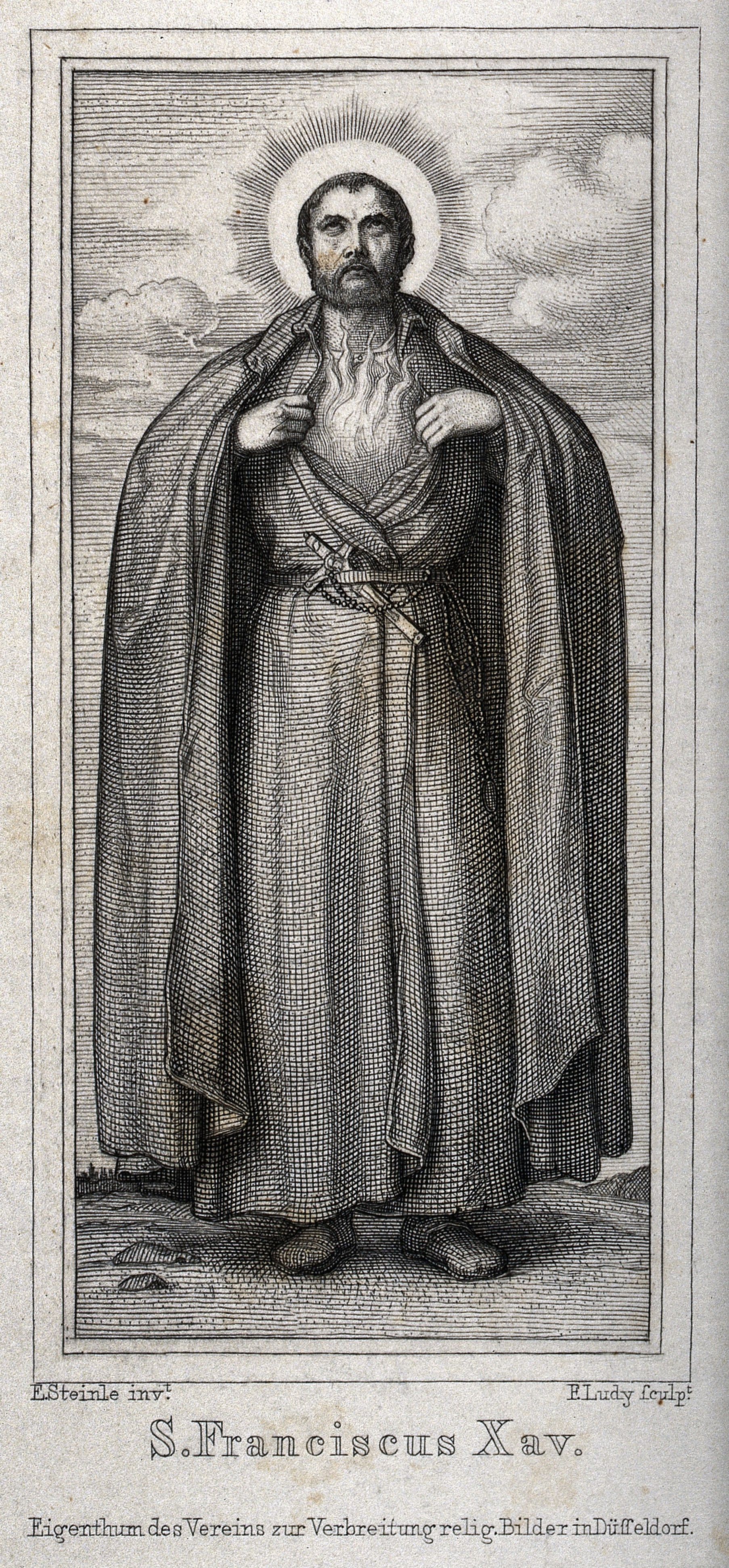 Saint Francis Xavier. Line engraving by Friedrich Ludy after Eduard Jakob von Steinle. Iconographic Collections Keywords: E. Steinle; F. Ludy